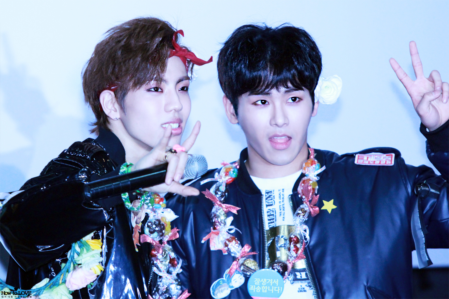 Infinite members Jang Dong-woo and Hoya at a fansign event in Hapjeong on February 8, 2015.